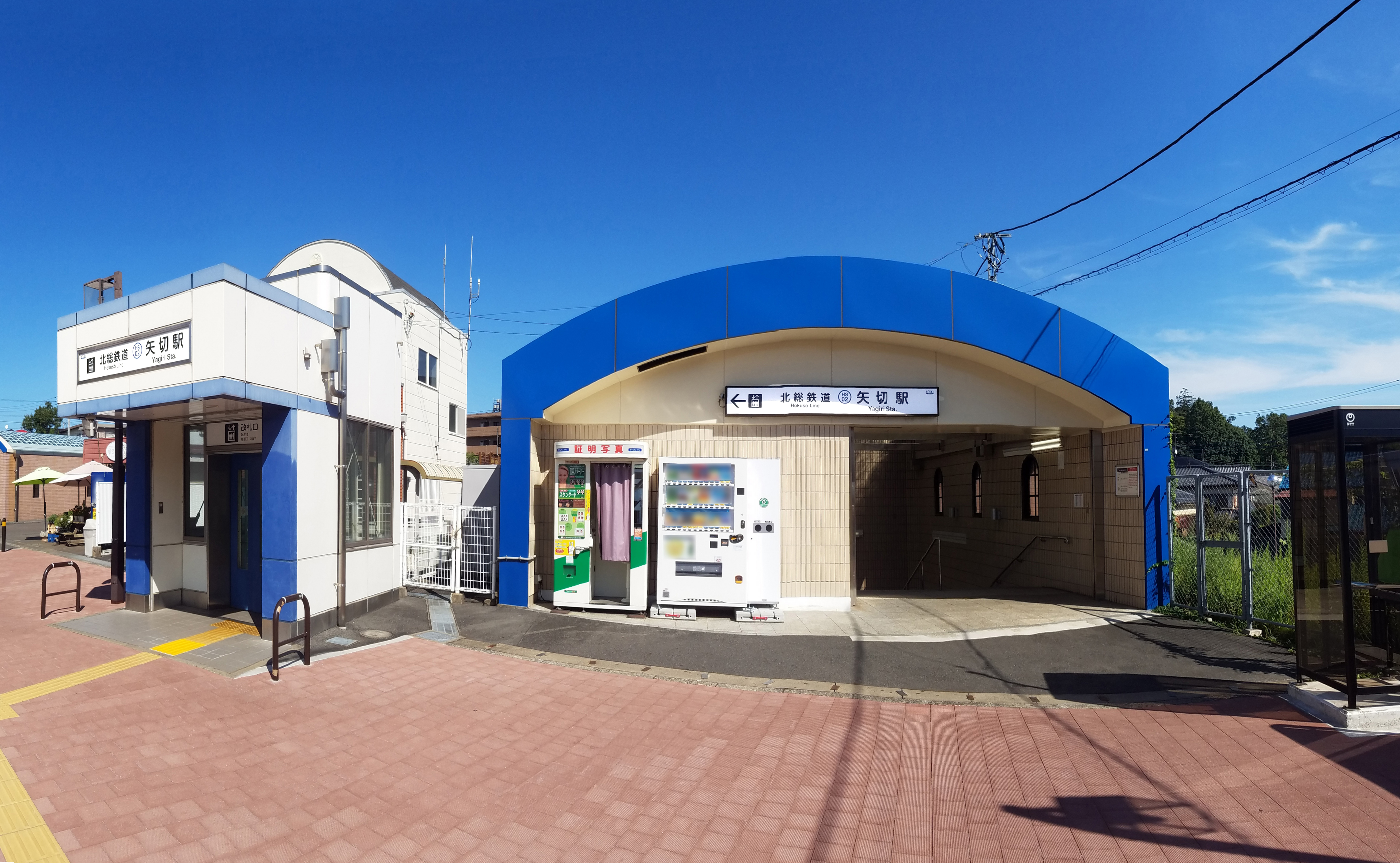 The no.2 entrance to Yagiri Station on the Hokusō Railway in Matsudo city, Chiba prefecture, Japan